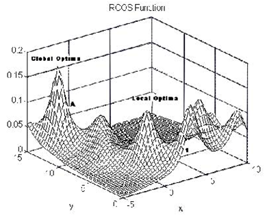 local and global optima